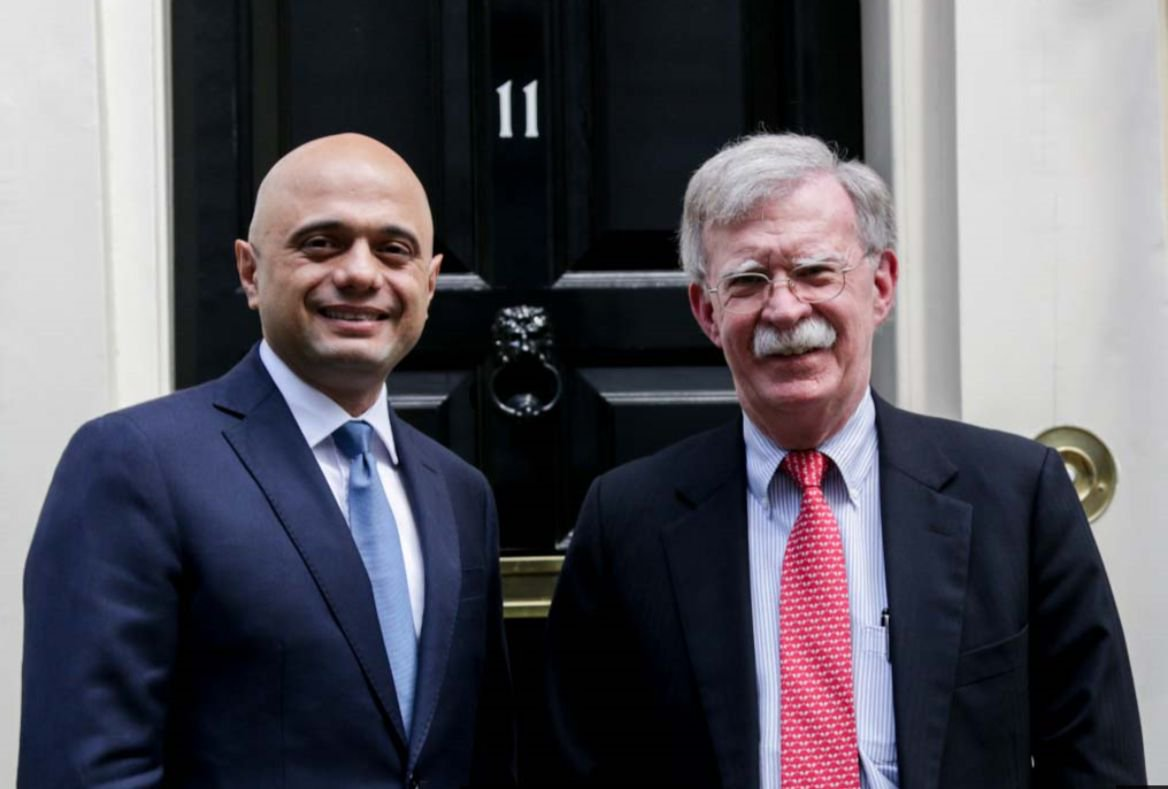 Excellent meeting with UK Chancellor of the Exchequer Sajid Javid. We discussed a broad range of topics critical to securing our nations’ shared security and prosperity.